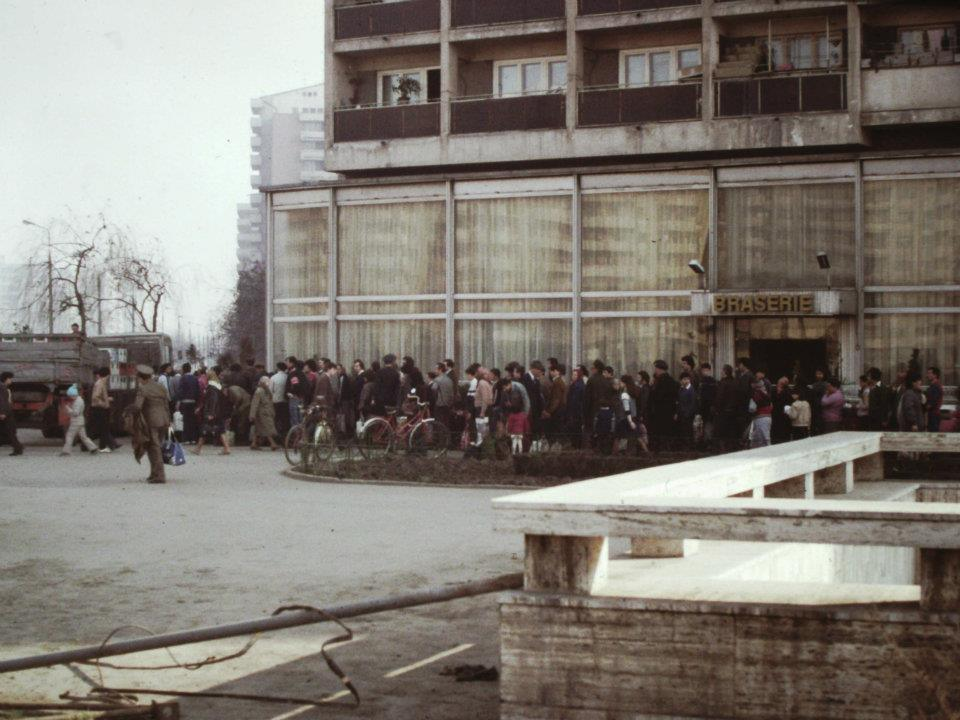 Waiting in line for cooking oil in Bucharest — Communist Romania in 1986.